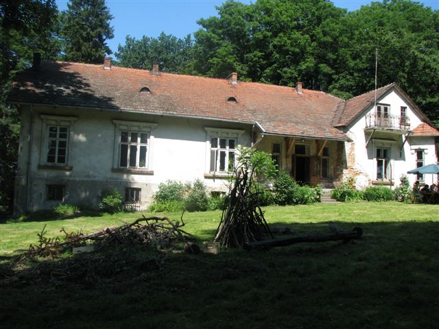 Gąsiorowski family's Manor house